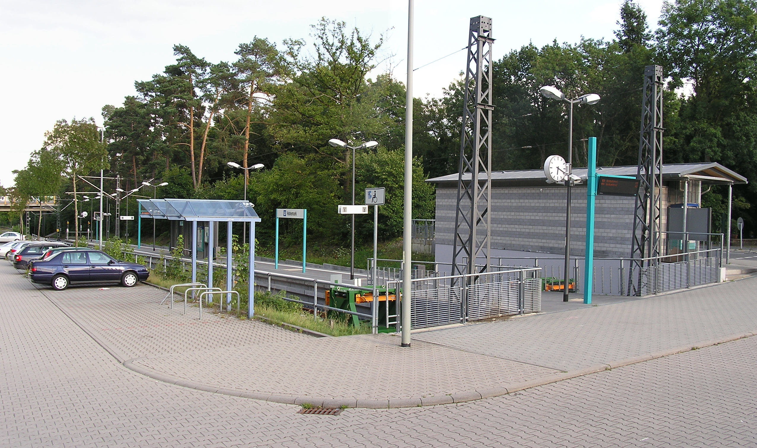 Terminal station at the line U3 in Oberursel